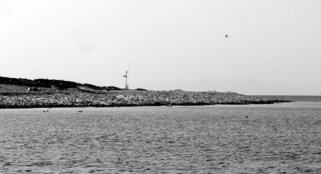 Rt Lakunji, north of Unije island